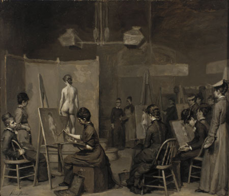 The Women's Life Class, Oil on cardboard (grisaille), 12 x 14 in. (30.5 x 35.6 cm.), Pennsylvania Academy of Fine Arts